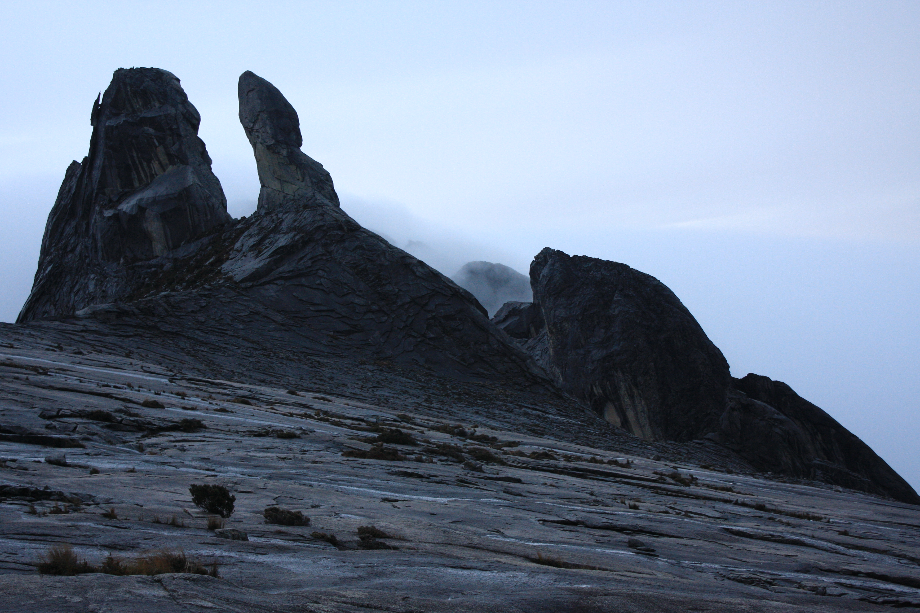 It's a pretty epic climb to get to this spot, arguably a lot more arduous than it is often made out to be. This is not a great shot by any stretch, but I thought it would be good to place a location for the wildlife shots.